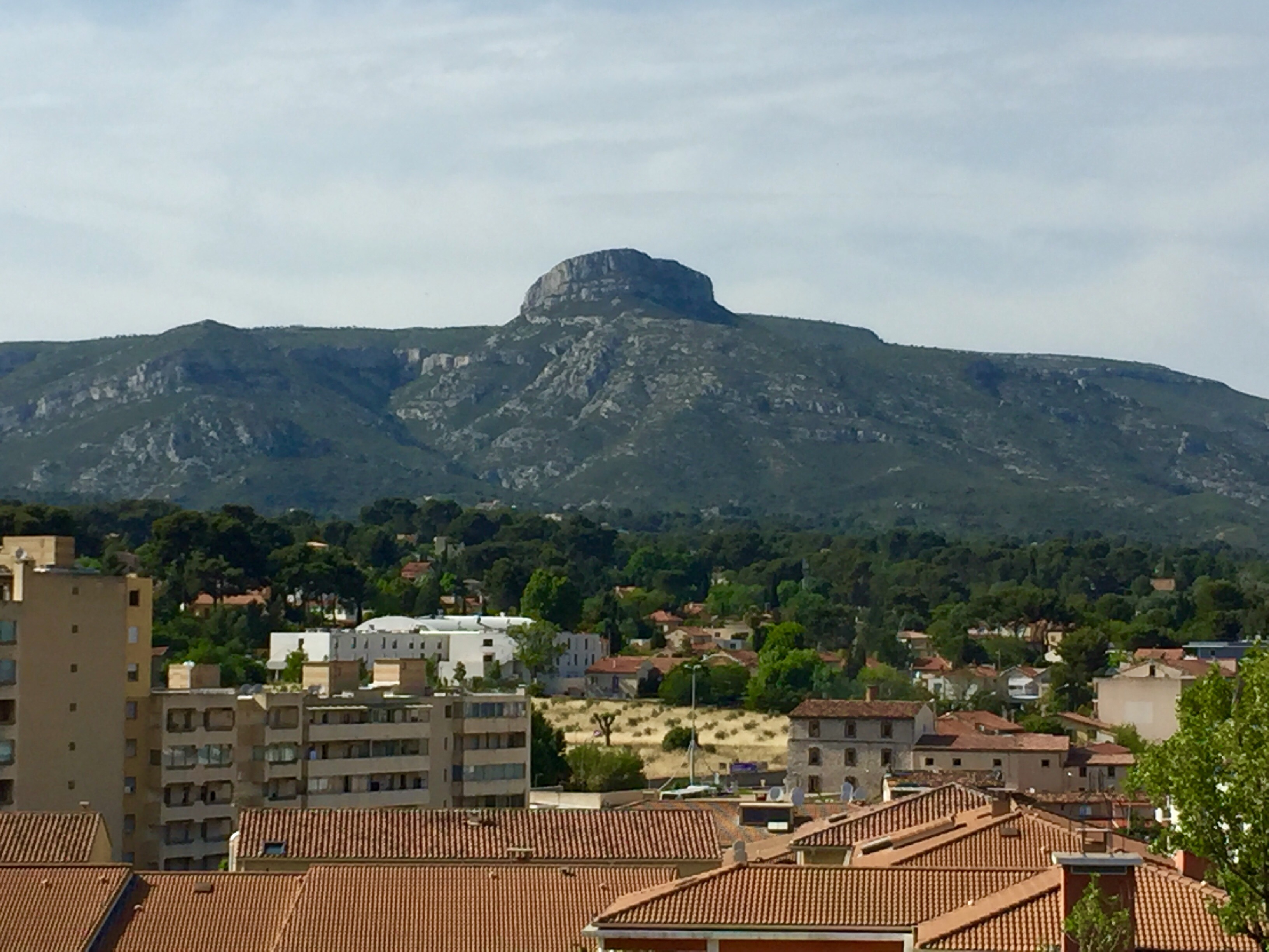 The Garlaban seen from Aubagne city center